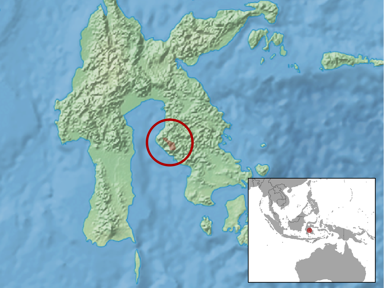 geographic distribution of Taeromys microbullatus